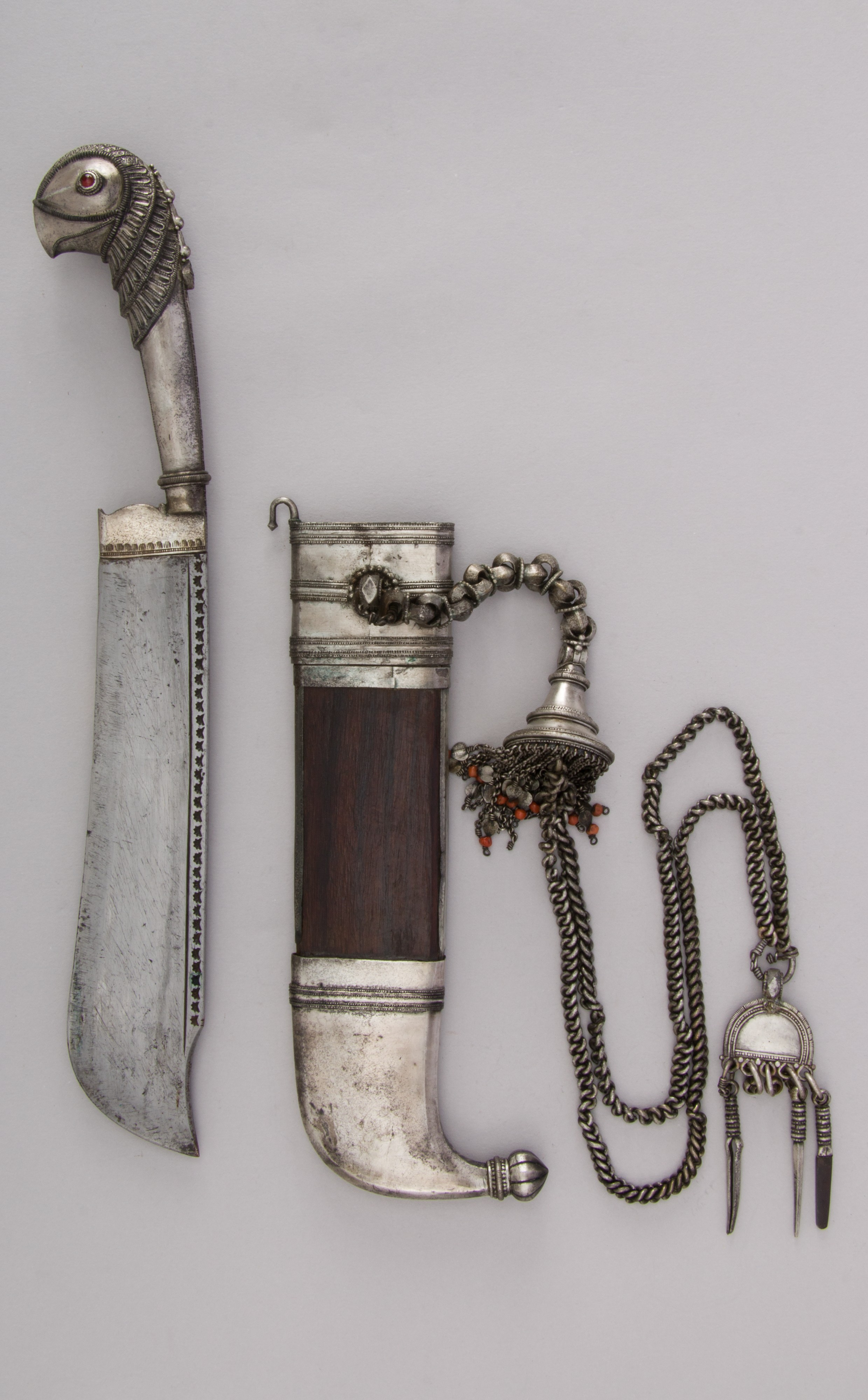 Indian, Kodagu (Coorg); Dagger with sheath; Daggers